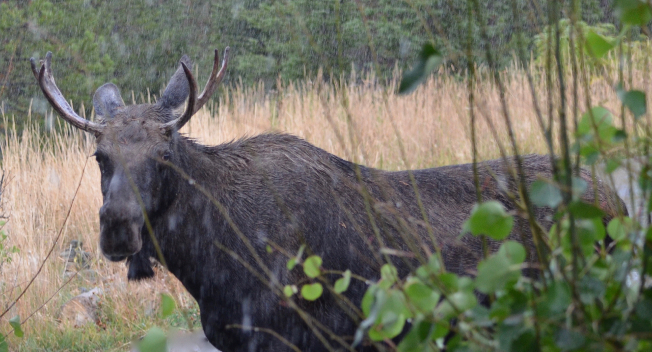 Closeup of Montana Moose